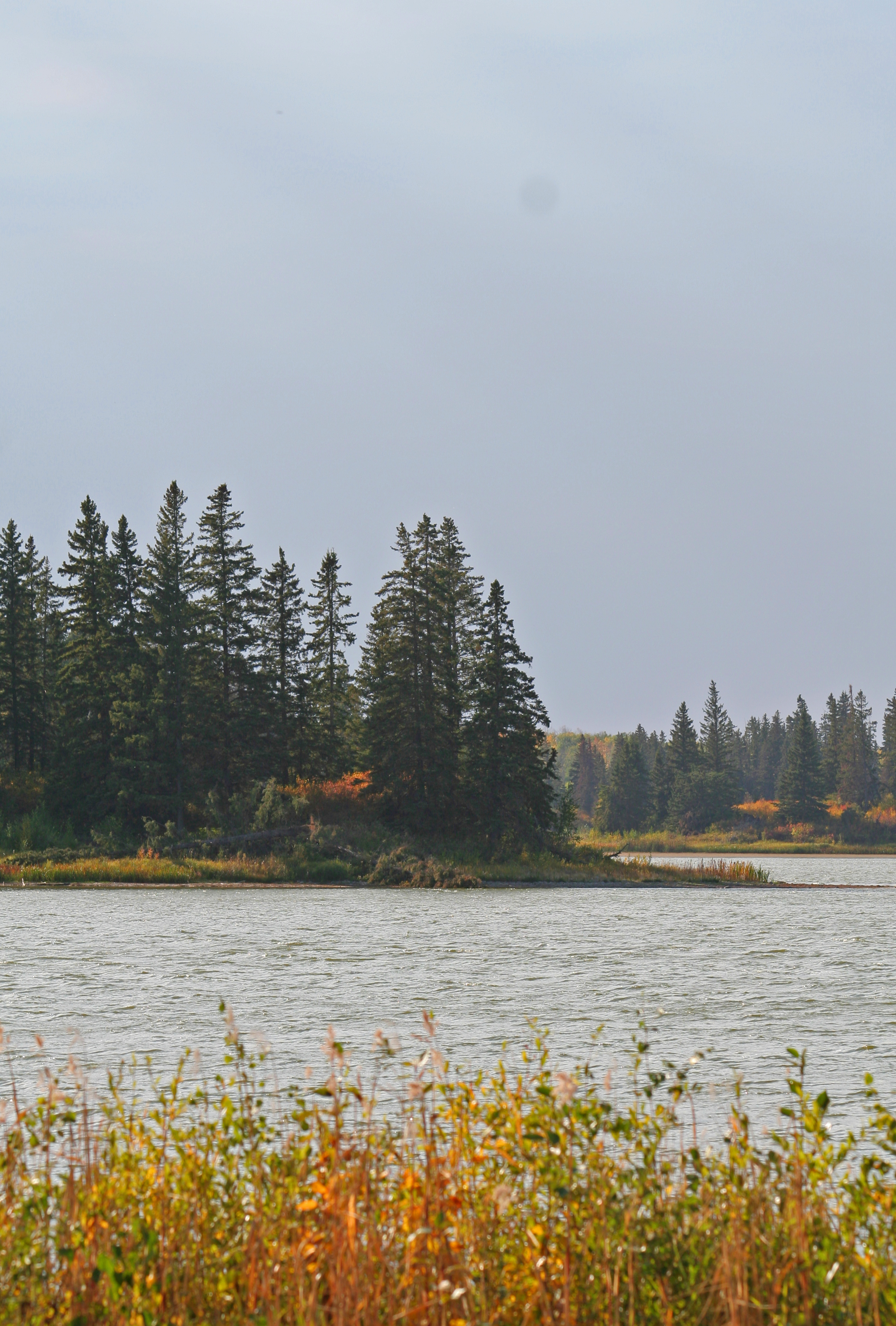 Elk Island National Park